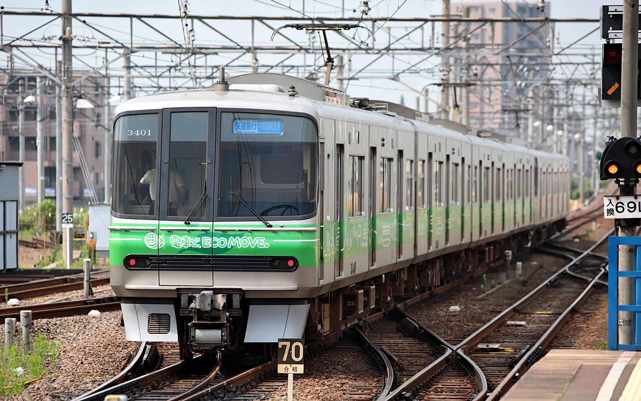 Meitetsu 3300 series EMU ( III ) with Eco Move Train 2008 wrapping, at Ōtagawa Station.